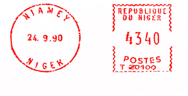 Meter stamp catalog image, Niger type 5